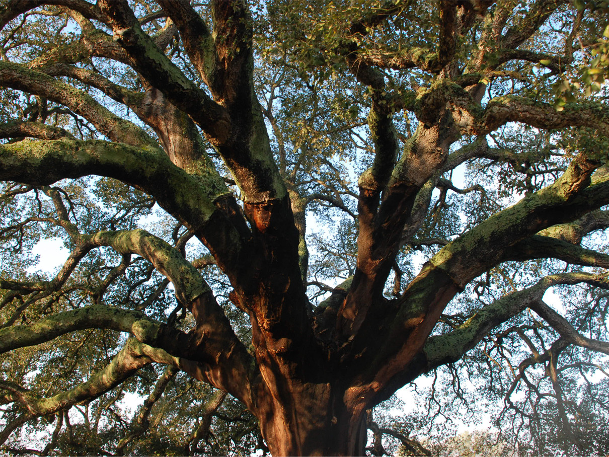 2018 winner ¨Whistler Cork Oak¨, Portugal